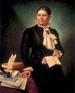 Portrait of Lucy Stone (1818-1893)